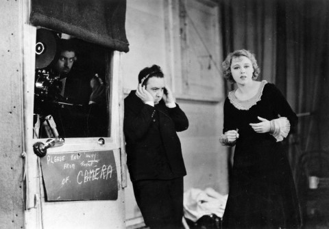 Alfred Hitchcock & Anny Ondra Test Sound of British talkie film Blackmail (1929)